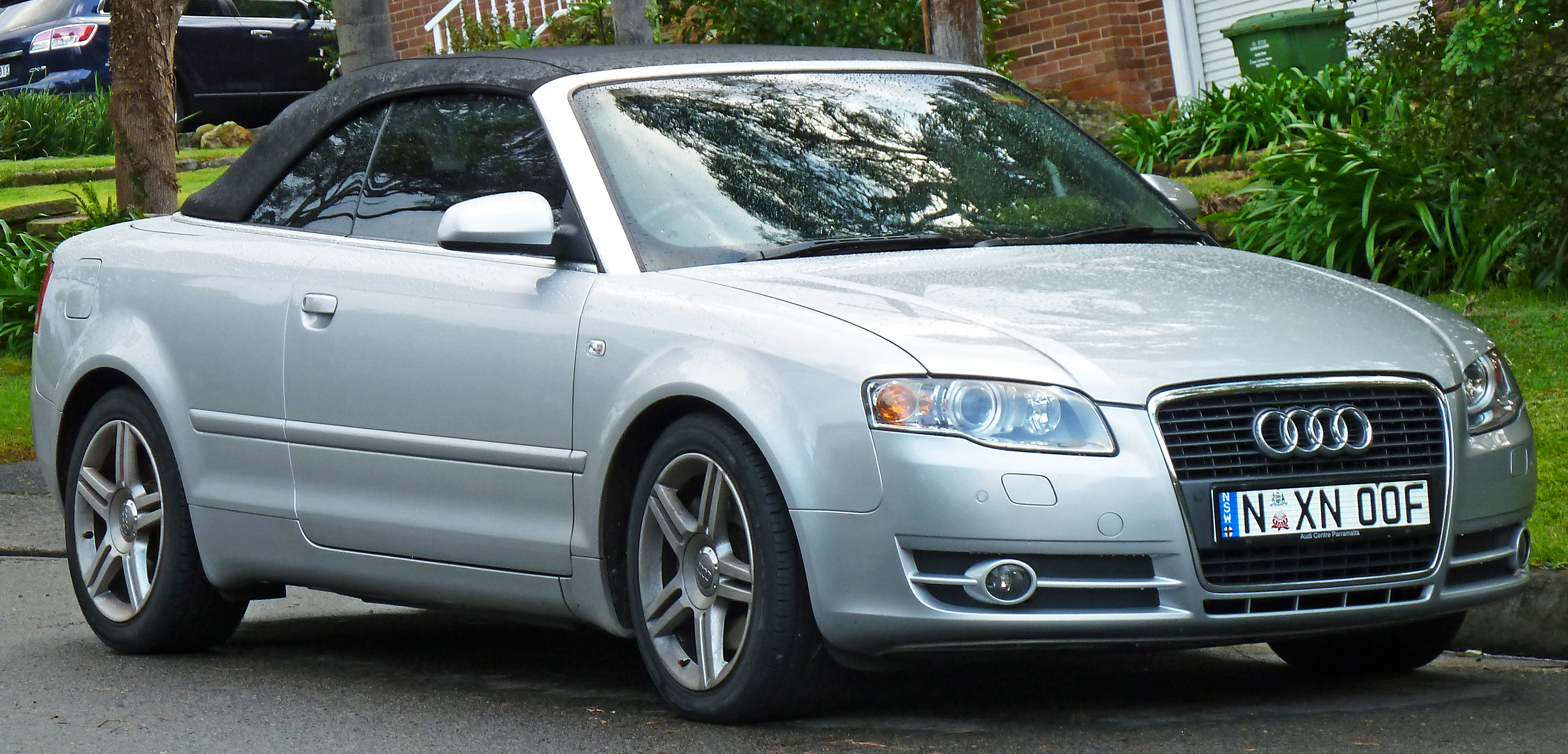 2006–2009 Audi A4 (8HE) 3.2 FSI convertible. Photographed in Roseville, New South Wales, Australia.